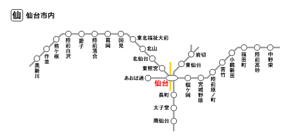 Area of stations in Sendai-shinai. Prepared by User:Highexpress.